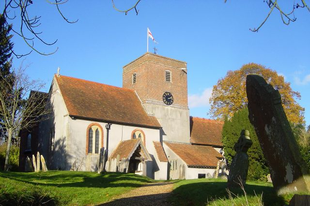 St Mary's Upton Grey. From the lych-gate. The gravestone on the right is leaning extravagantly - and is not the result of a wide-angle lens. A view from the porch can be seen at 282053.